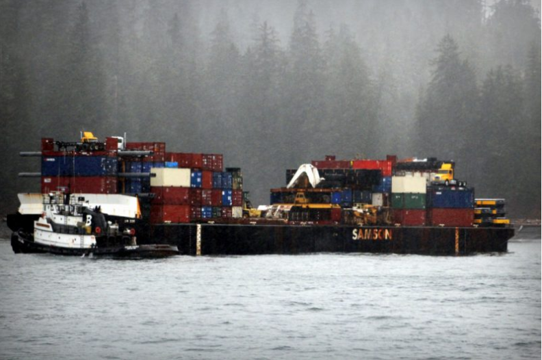 The American tug Ocean Eagle and the barge she was towing after they ran aground on Mariposa Reef in Sumner Strait in the Alexander Archipelago in Southeast Alaska on 1 March 2017